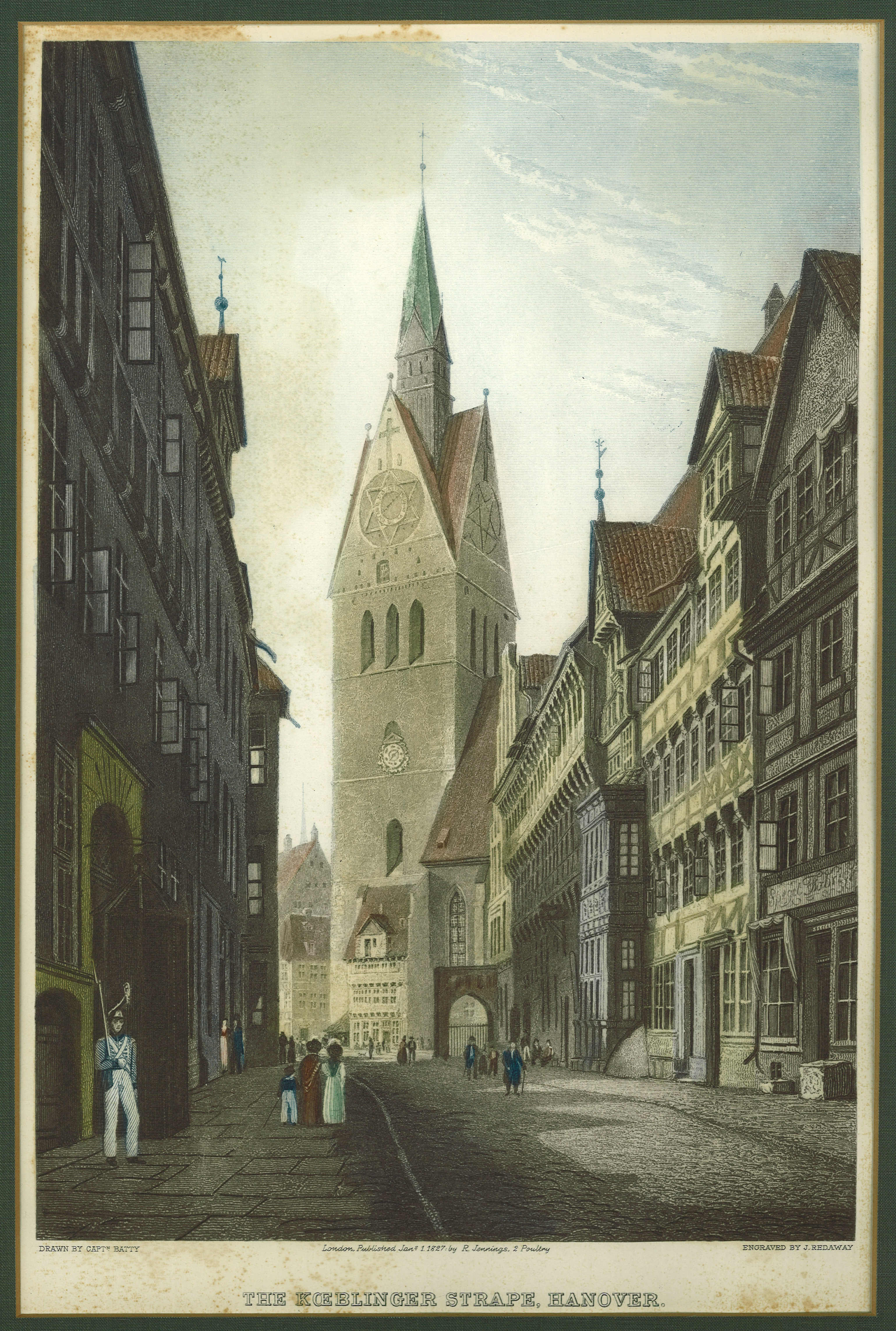 The Koeb(e)linger Strasse, Hanover. Colored steel engraving after a drawing by Capt'n Batty. Published January 1, 1827 by R. Jennings, 2 Poultry